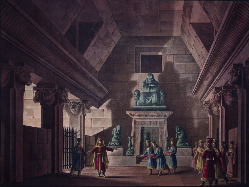 Interior of the Sanctuary. Set design by Alessandro Sanquirico for the opera "Semiramide" by Gioachino Rossini, restaged at La Scala, Milan, 1824. Aquatint engraving with original hand color, after a drawing by Alessandro Sanquirico.